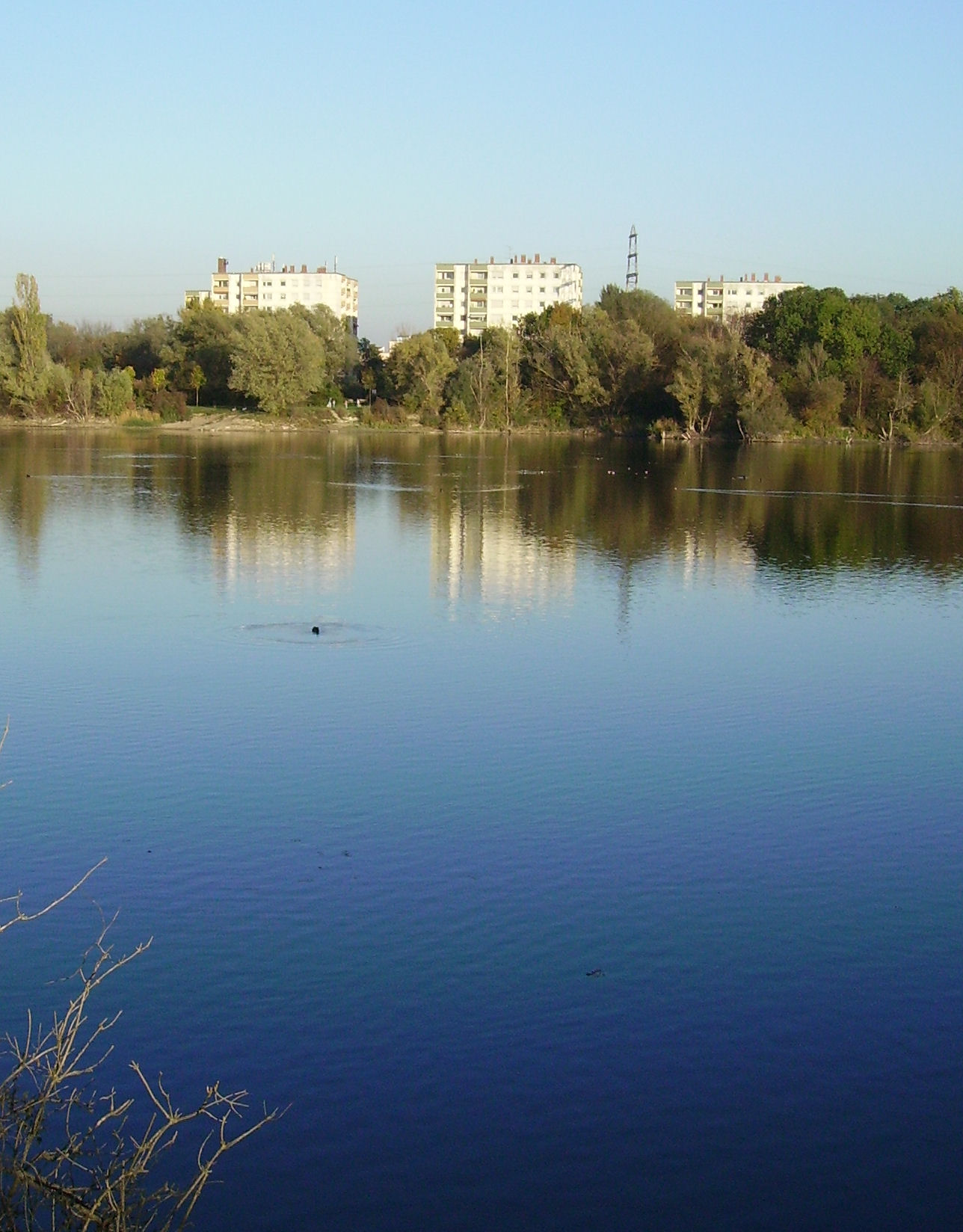 Ludwigshafen in Rhineland-Palatinate (Germany)